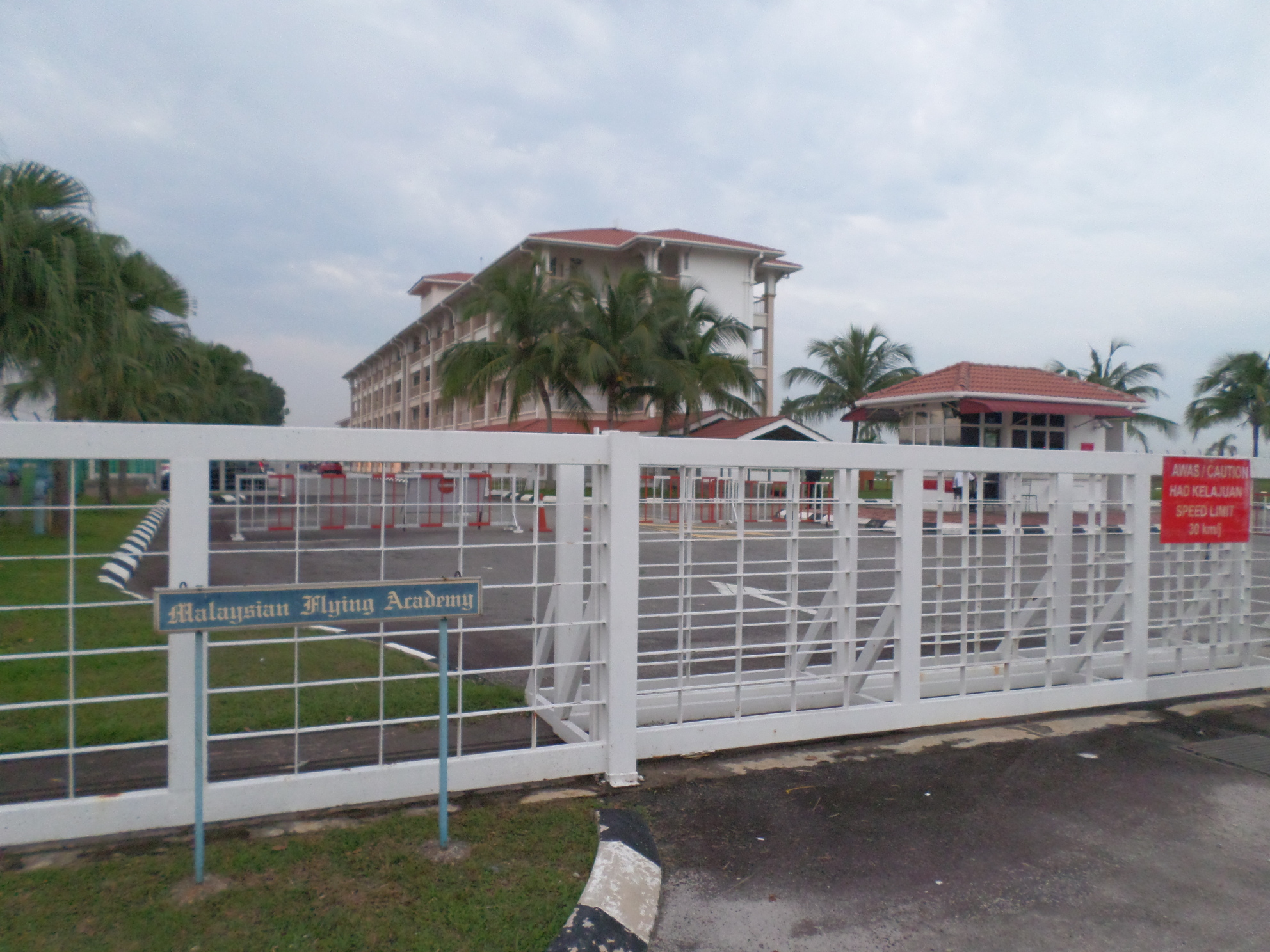 Malaysian Flying Academy, Batu Berendam, Malacca, Malaysia